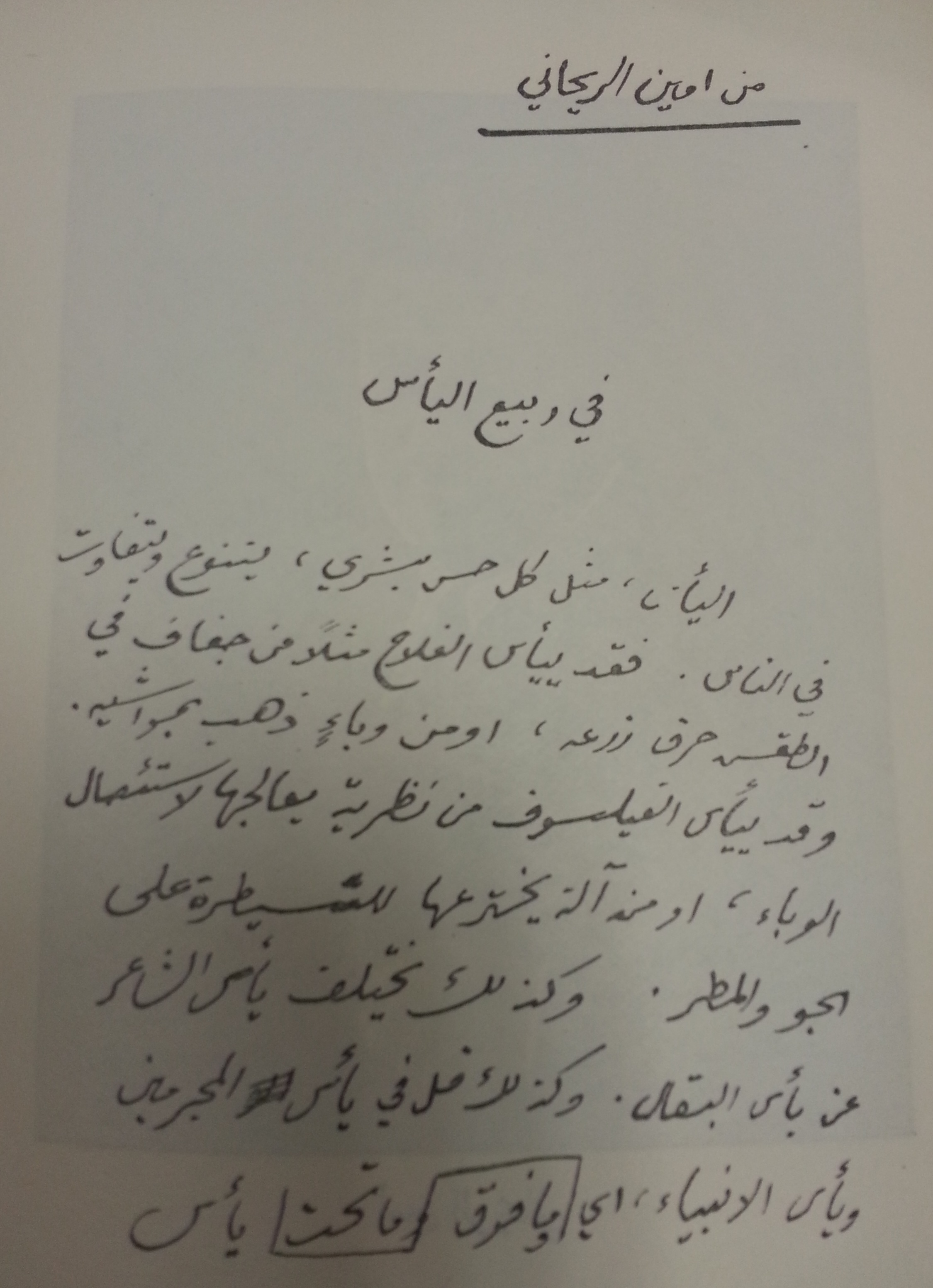 A Hand writing by Amīn Al-Rīḥānī, it says, from top to bottom (right to left): From Amīn Al-Rīḥānī, in the spring of Angst. Desperation, as any other human feeling, is diverse and vast in different people. A peasant for instance might feel desperate because of a dry weather that destroyed his crops, or because of a disease that killed his livestock. A philosopher (meaning wise man here) might get desperate because of some theory he is struggling to prove in order to eradicate that disease, or trying to create a machine that allows him to control the weather and rain. That been said, A poet's Angst is different from that of a Grocer, and that goes true also for criminals and prophets. All who are at the top feel Angst, and all those who are at the bottom.